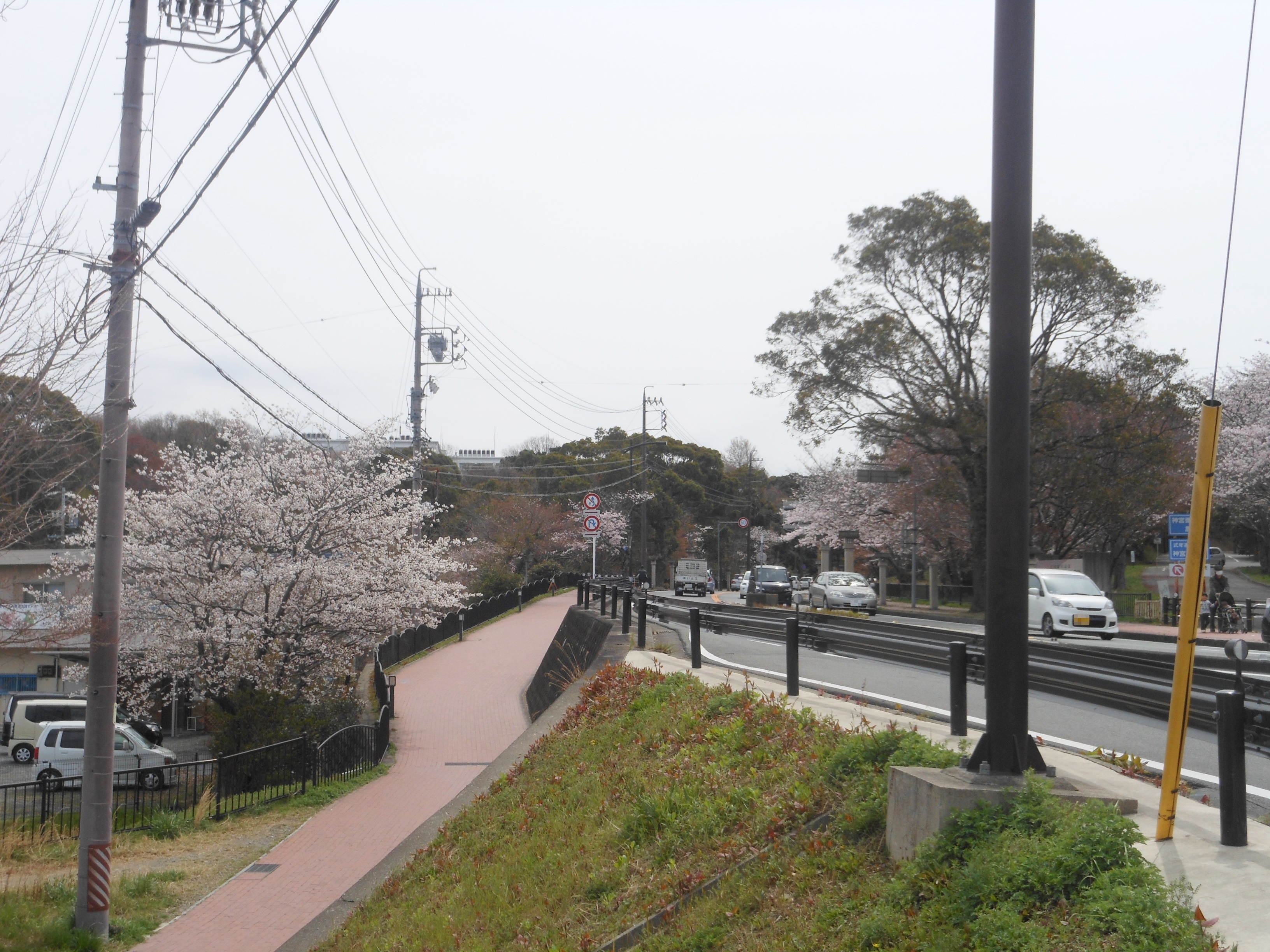 The Miyuki Road in Ise City, Mie Prefecture, Japan, with the cherry blossoms in bloom